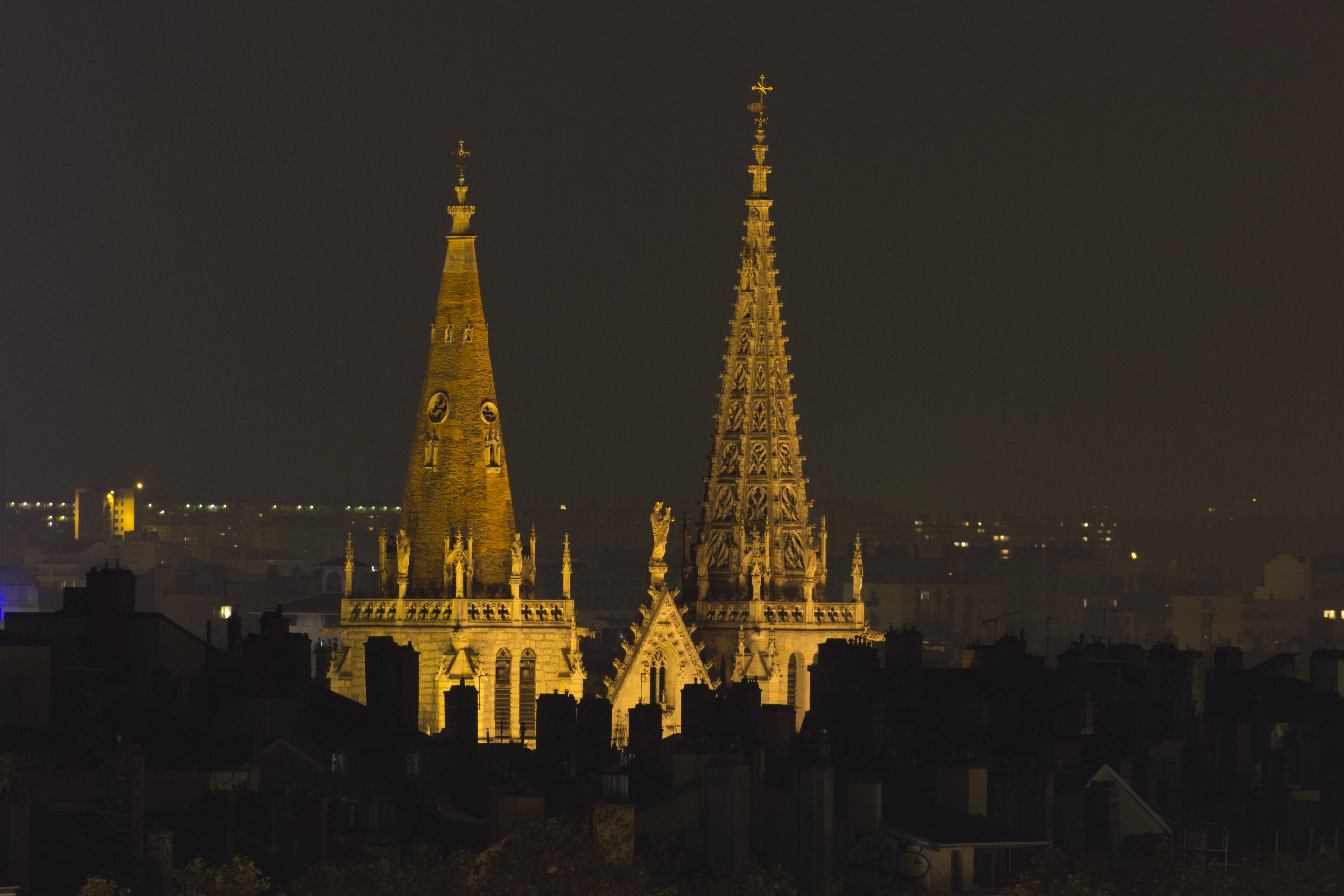 Spires of Saint-Nizier church in Lyon.